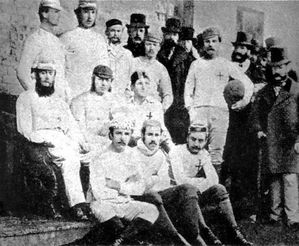 Photo of a representative London XI from 1865. This image has been widely published as being of a Sheffield F.C. football team taken in 1857. Recent research has identified that the players are wearing badges of the London Football Association and that the bearded gentleman in the left of the picture is Arthur Kinnaird, 11th Lord Kinnaird, a founding member of The FA. See entries for 9th, 10th and 15th of October 2008 on for identification.